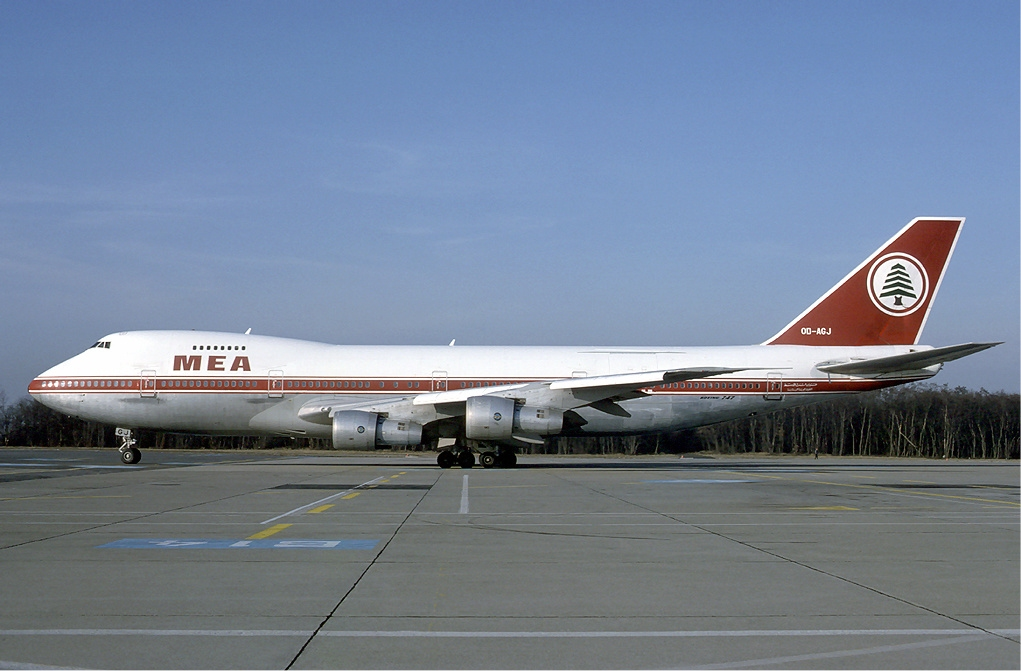 Middle East Airlines Boeing 747-200 (OD-AGJ) at Euroairport in December 1984.